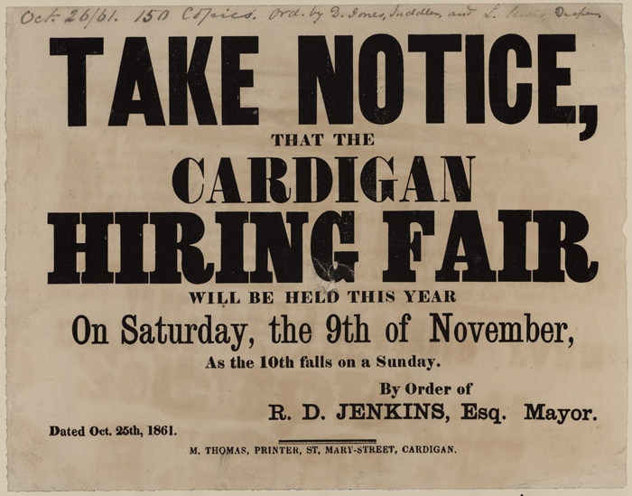 Take Notice that the Cardigan Hiring Fair